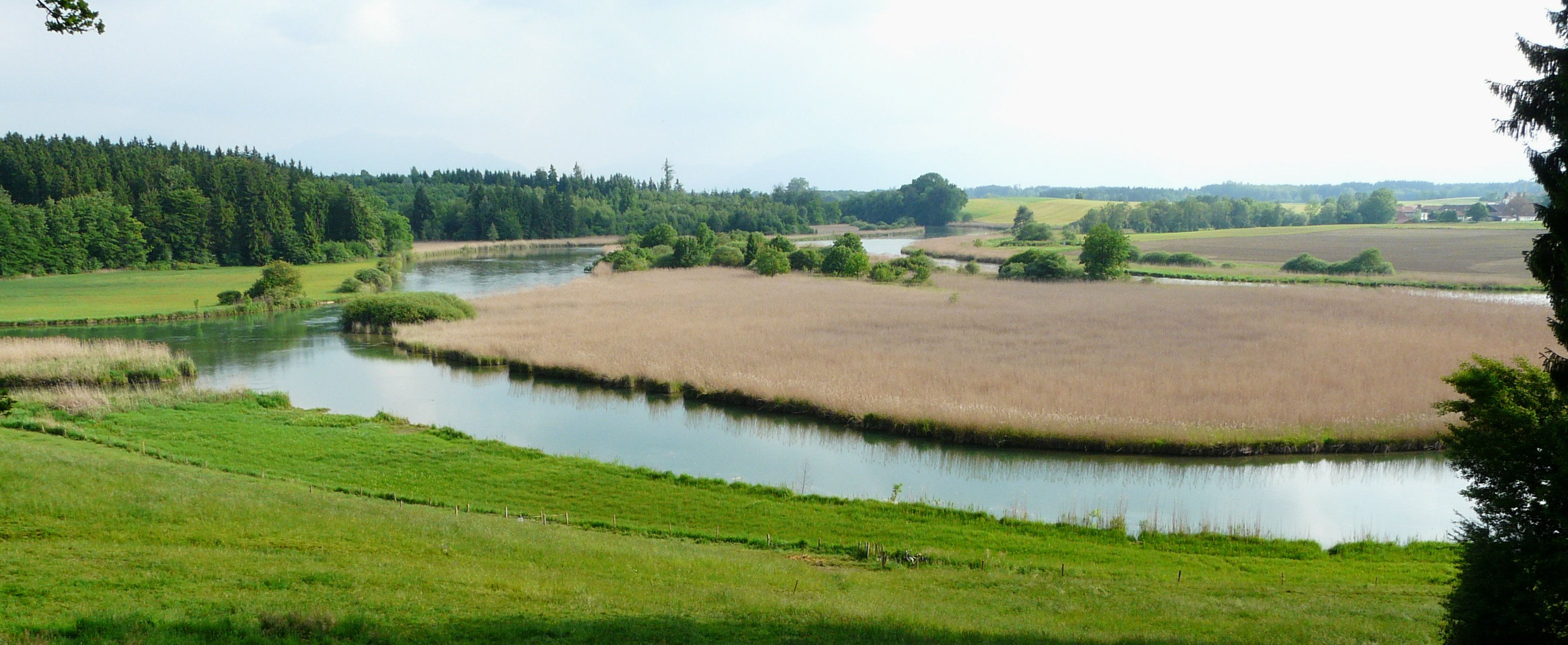 The "Bifuß" is an reed island in river "Obere Alz" - river kilometres 58.